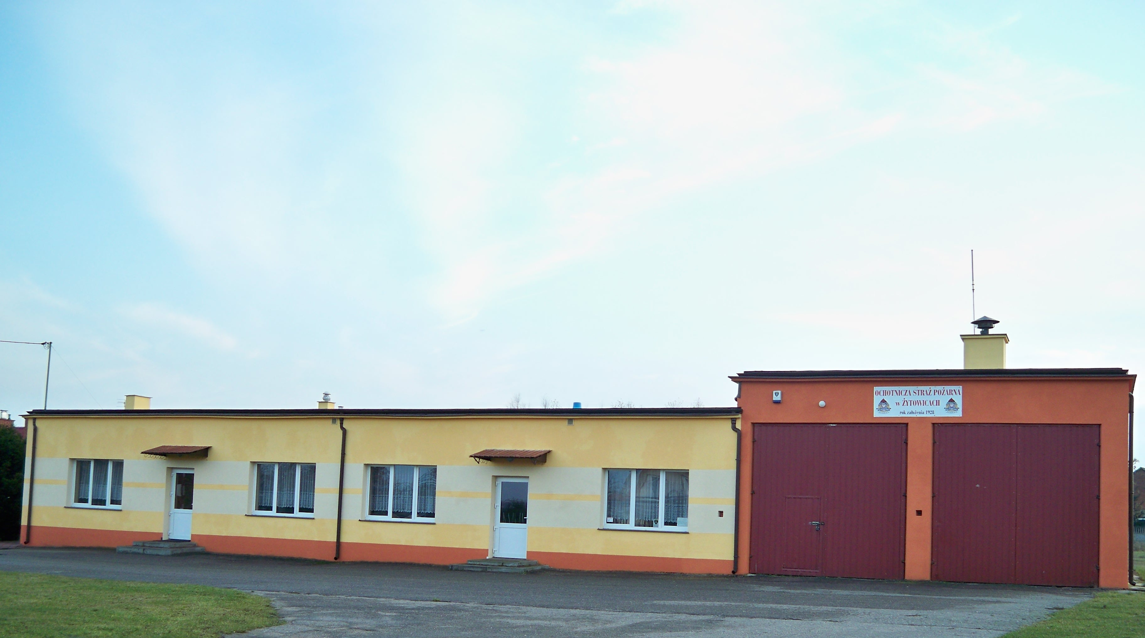 My photo